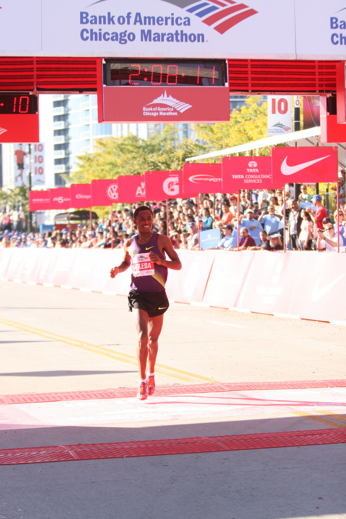 Feyisa Lilesa Chicago Marathon 10-10-10, find my original on my flickr at